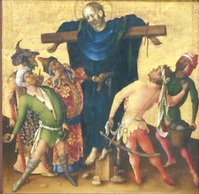 tefan Lochner, Die Apostelmartyrien. The Martyrdom of the Apostles, 1435-40. Frankfurt, Stadelsches Kunstinstitut Around 1435, the Cologne Brotherhood of Saint Catherine commissioned Stephan Lochner to produce an altarpiece for their confraternity's chapel in the church of the Holy Apostles. The inner wings represent the martyrdom of the twelve apostles. On the left wing the martyrdoms of Sts Peter, Paul, Andrew, John the Evangelist, James the Greater and Bartholomew, while on the right wing those of Sts Thomas, Phillip, James the Less, Matthew, Simon and Judas, Matthias are depicted. The outer panels (today in Munich) show a pair of smaller donors kneeling in prayer before six patron saints.